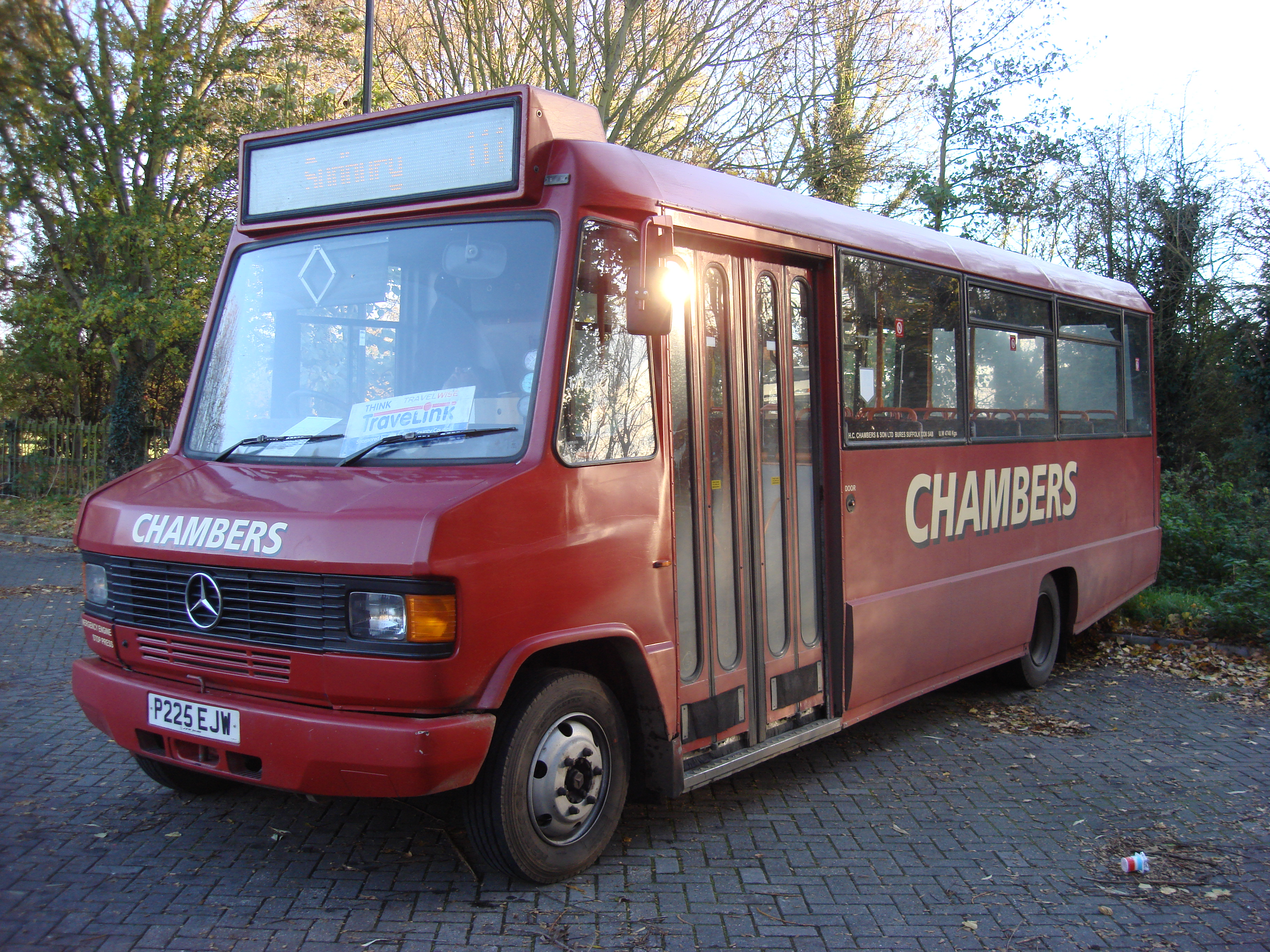 Chambers P225EJW, a Mercedes-Benz 811D/Marshall, at Sudbury Lorry park.